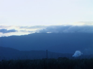 Gordonvale mill with mountains in background